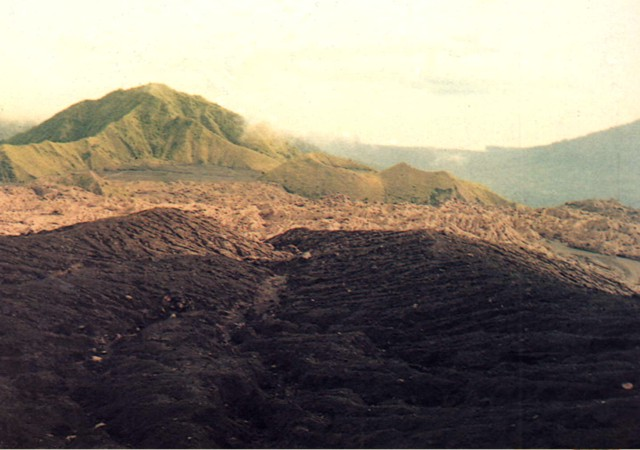 Nearly constant explosive eruptions keep the ash-blanketed crater floor of Dukono volcano unvegetated. This view from Gunung Heneowara peak on the southern crater rim shows Gunung Telori peak at the upper left and the small Gunung Dilekene pyroclastic cone at the right-center. The slopes of Gunung Mamuya stratovolcano rise at the extreme right above the coast. Dukono has been in continuous eruption since 1933.